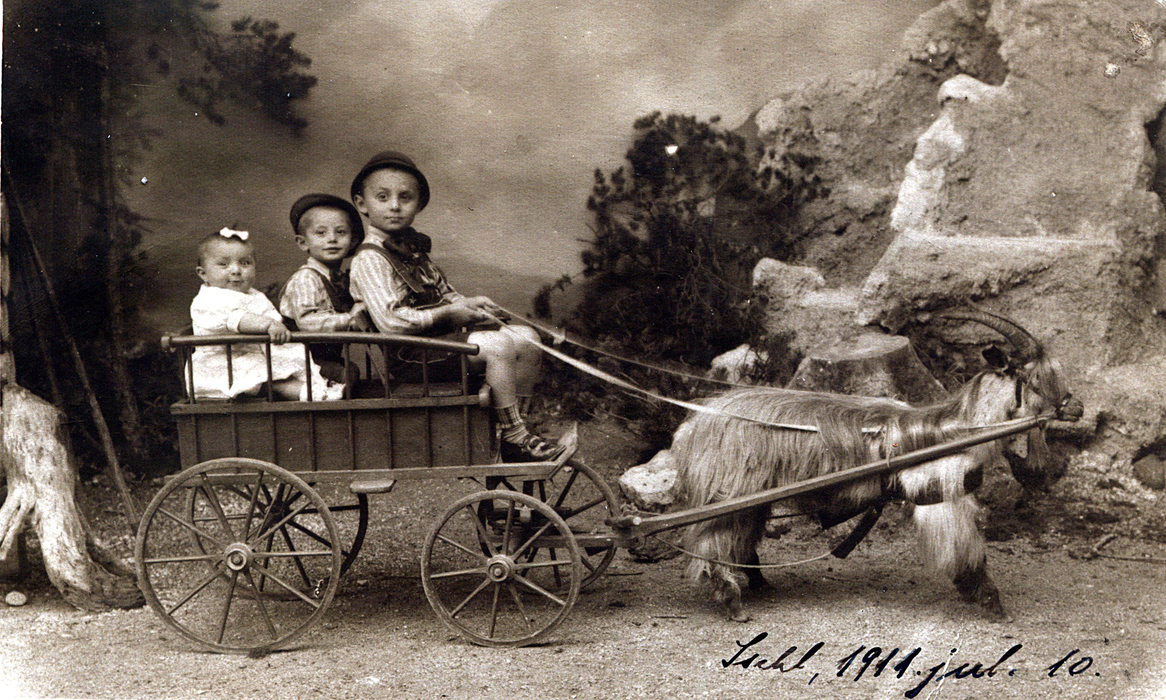 Pal and Erno Friedmann on vacation in Bad Ischl, 1911